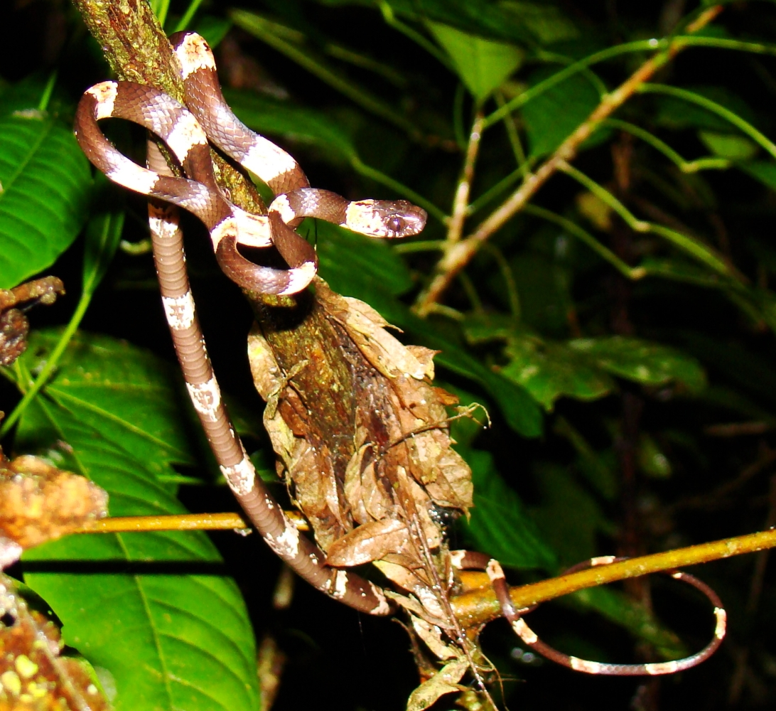 Snail-eating Snake (Dipsas gracilis) photographed at night at the Lalo Loor Dry Forest Reserve (Bosque Seco Lalo Loor in Spanish, or BSLL) in coastal Ecuador. Jama county, Manabí province.